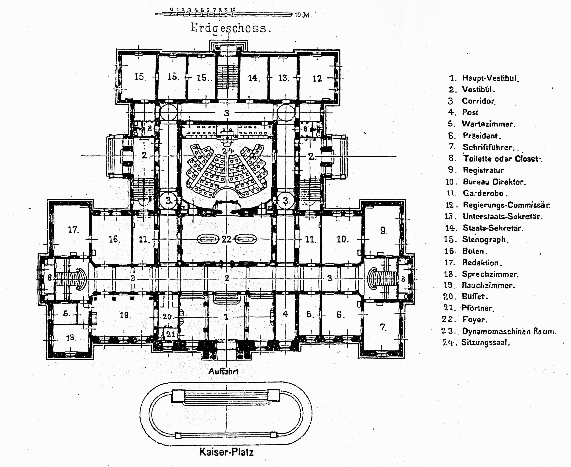 Landesausschuss-Gebäude in Straßburg, Architekt S. Neckelmann, Prof. an der TH Stuttgart, Tafel 91, Kick Jahrgang I